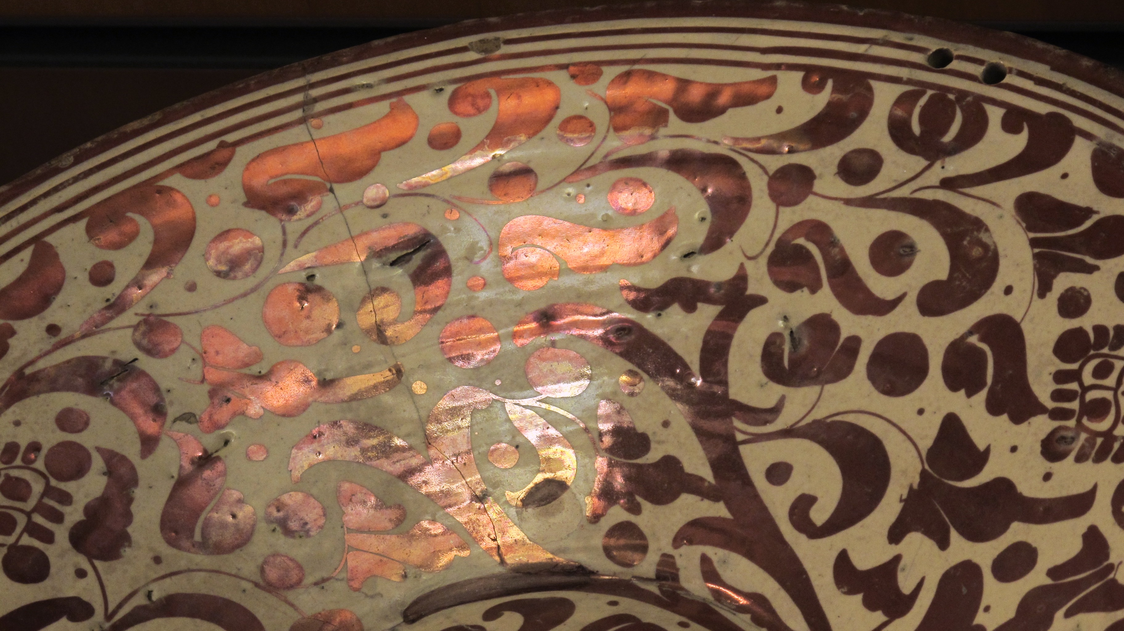 Hispano-Moresque lusterware, image cropped. Catalonia,_Reus._LyonMBA